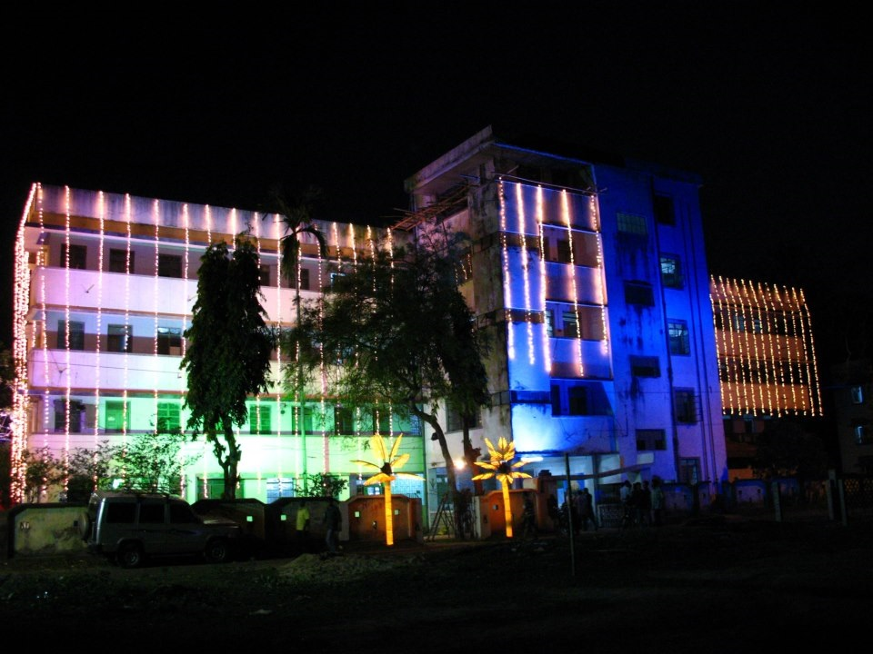 One of the best hostel of K.G.E.C